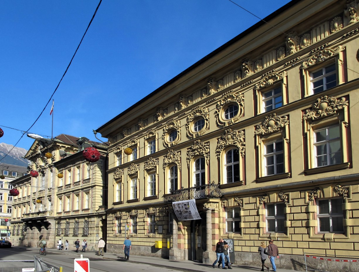 Innsbruck, "Altes Landhaus" (le) and Palais "Fugger-Taxis" (ri)